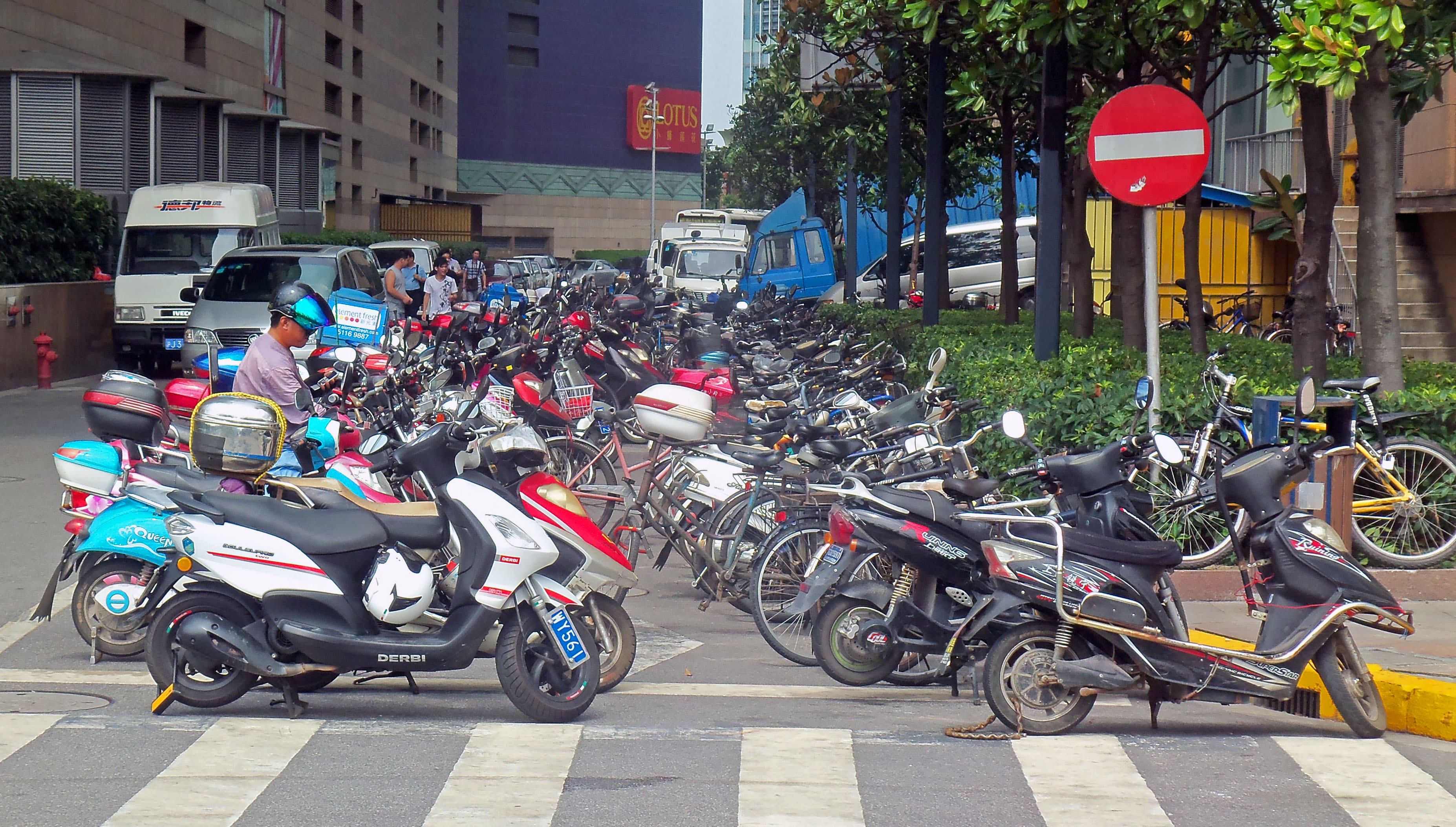 Motorbikes parked at Fucheng and Mingshang roads in Lujiazui.